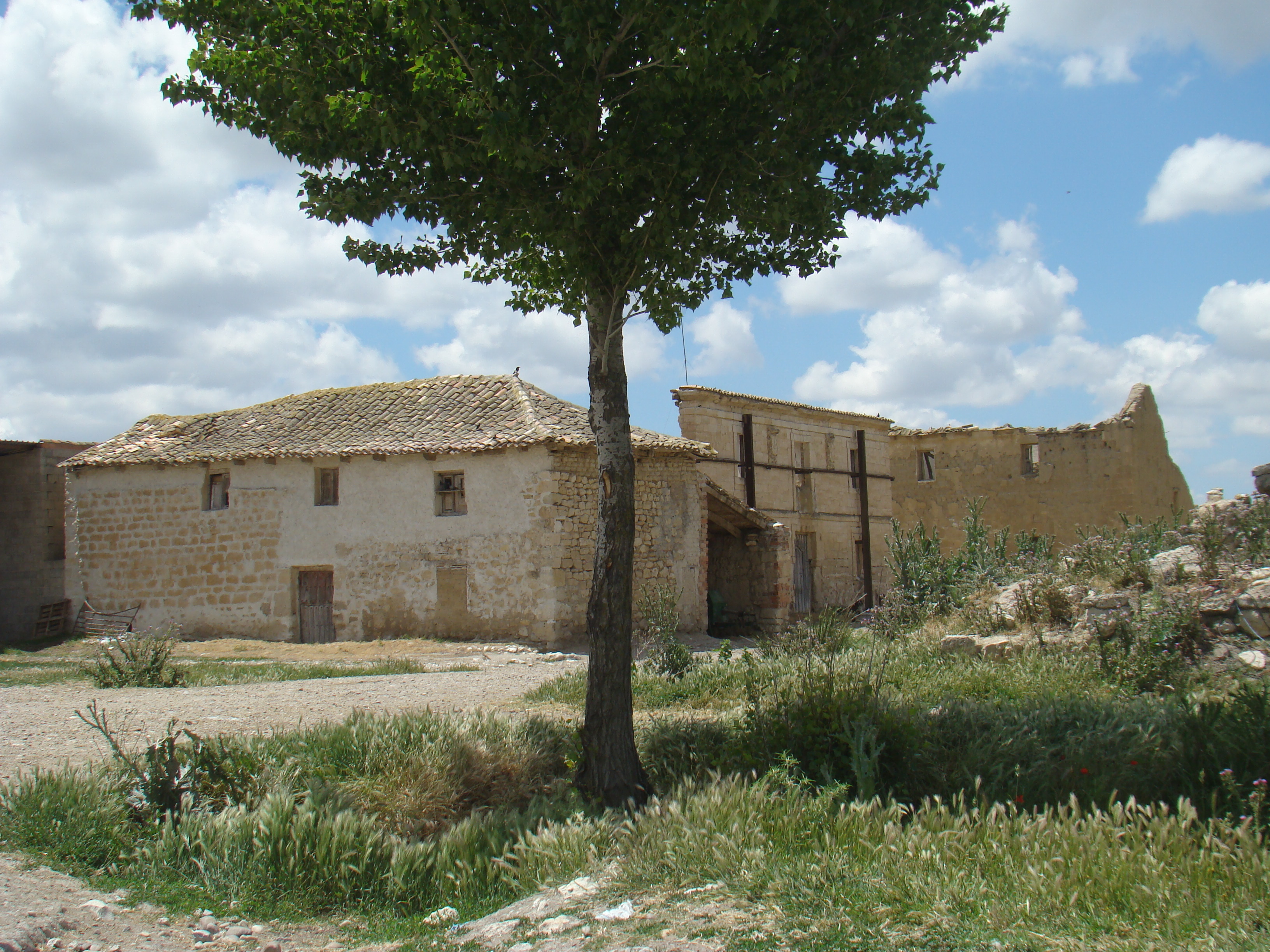 The place known as Granja de San Andrés is located in the «benigno valley», 3.5 km from the municipality of San Martín de Valvení, province of Valladolid, Castilla y León, Spain. His life began as a Benedictine monastery called San Andrés de Valbení but as the monks moved to the new monastery of Palazuelos, the place became a priory. In the 21st century the place is conserved as an agricultural farm although the old buildings have not been kept in good condition nor has been used, so that their remains deteriorate from year to year. In the photo the facade of the old ancestral home of the priory.